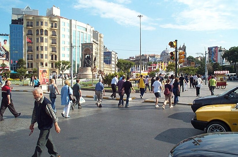 Life at Taksim square, Istanbul